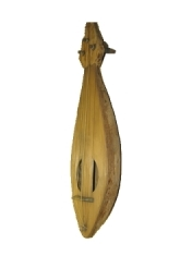 The lyra found in Novgorod On the possibly other photograph it is labeled "Гудок XII. s" and captioned "Wood Rebek".